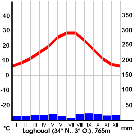 Climate diagram (in German) of Laghouat in Algeria created with